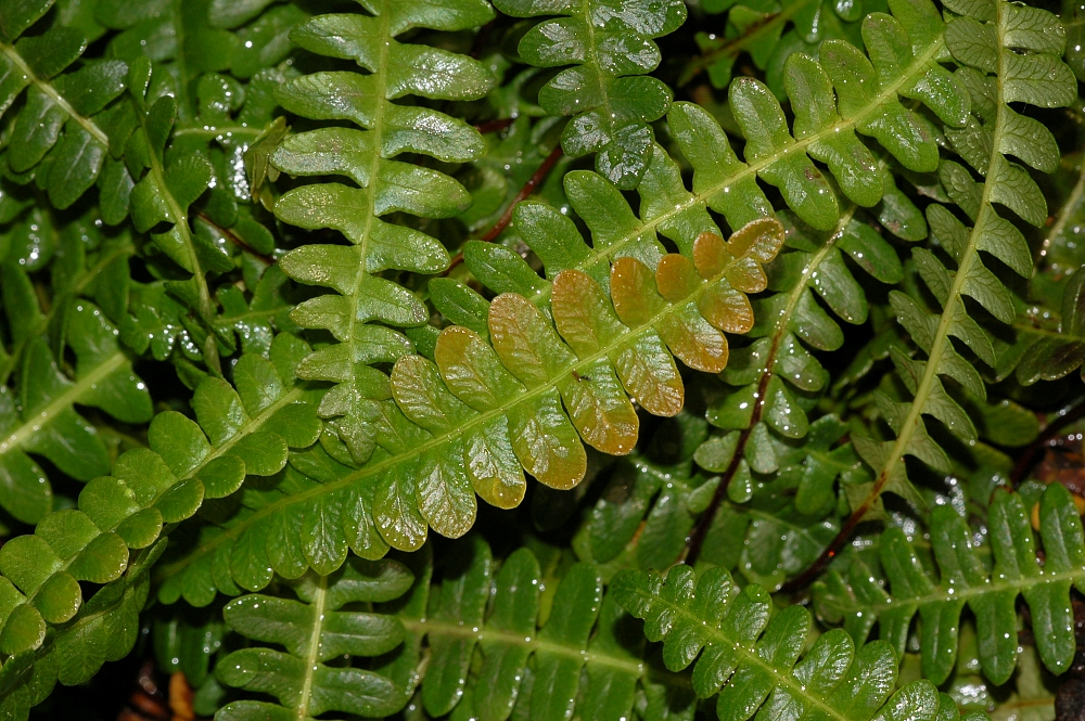 Blechnaceae: Blechnum penna-marina, Palmengarten, Frankfurt/Main, Germany